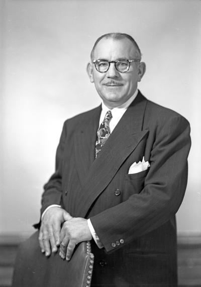 President of the Senate Victor A. Meyers